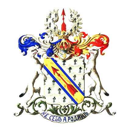 Coat of Arms of Gubonin family